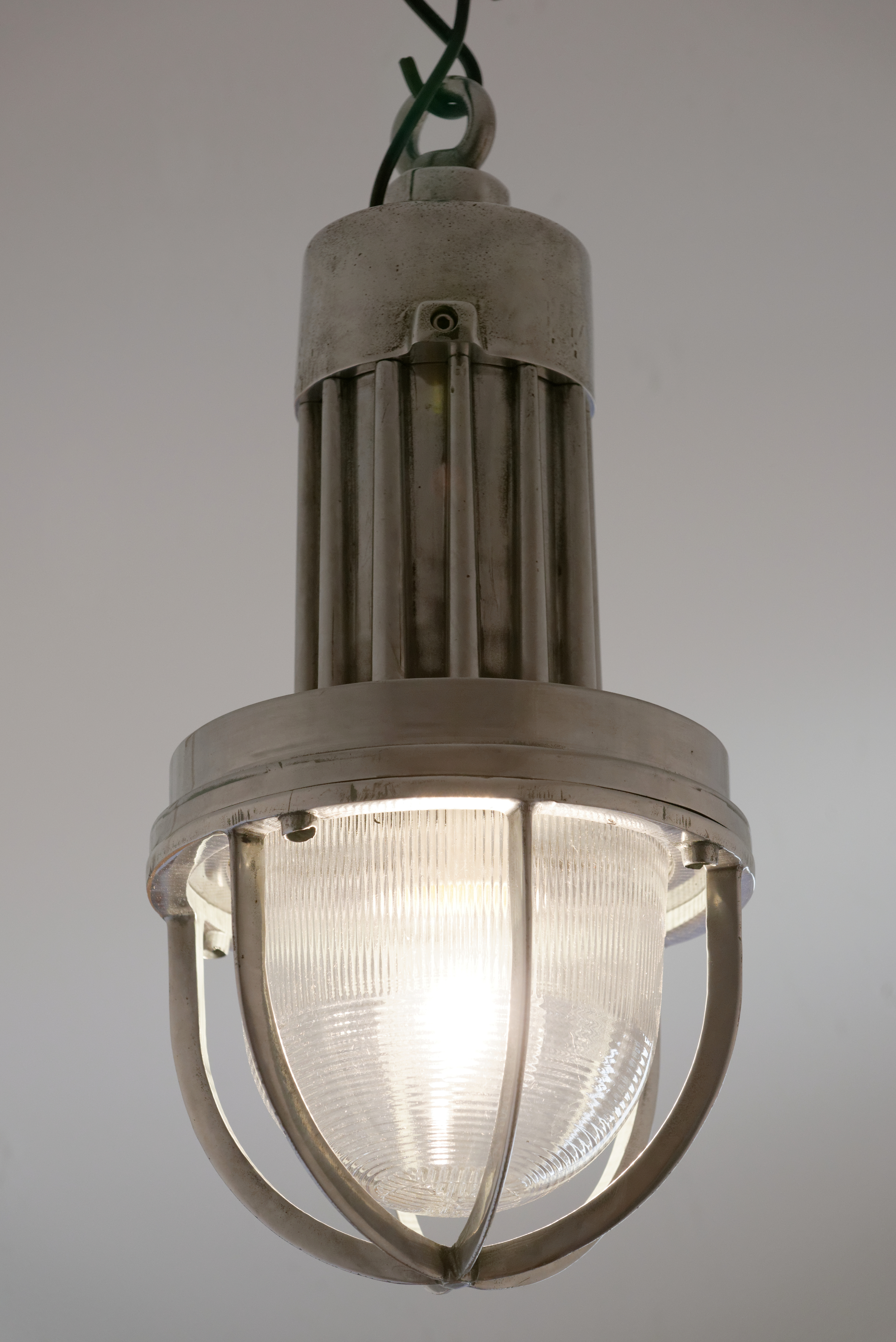 Industrial Holophane caged pendant light. Die-cast aluminium and prismatic glass.